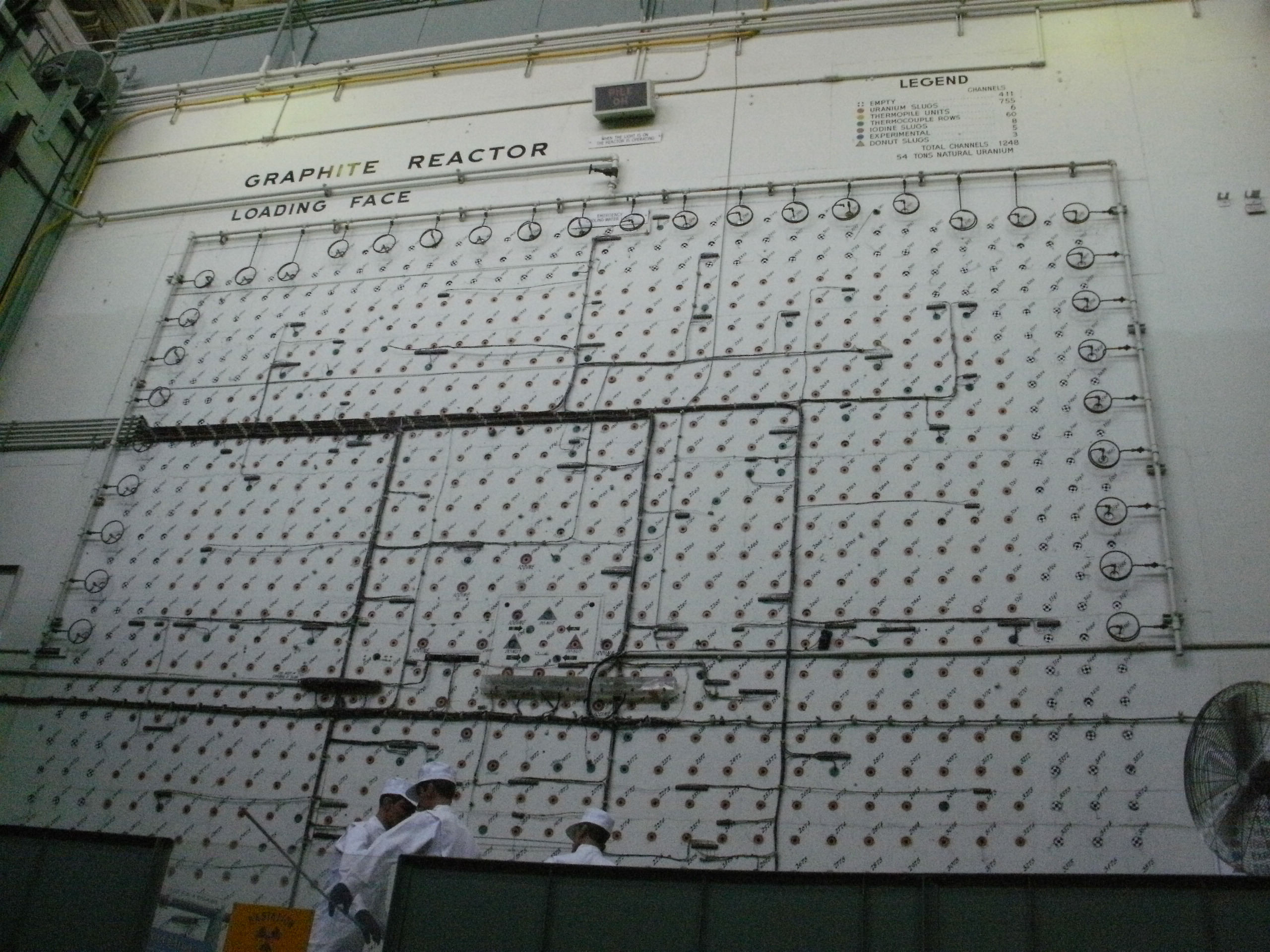 The X-10 Graphite Reactor in July 2011.